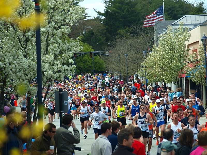 Crowd in the boston Marathon 2010